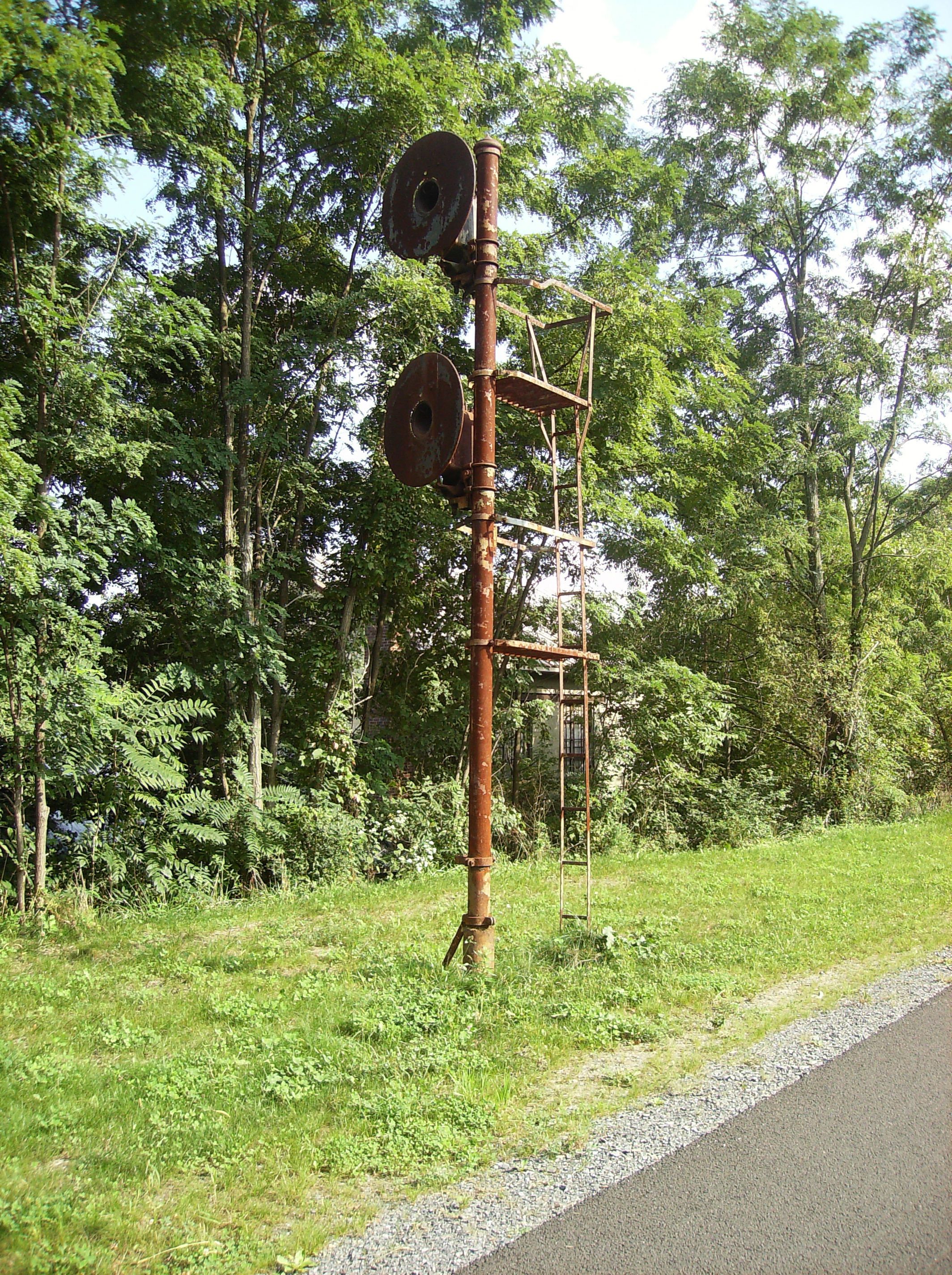 A defunct railway signal on the Hudson Valley Rail Trail in the hamlet of Highland in the town of Lloyd, New York.